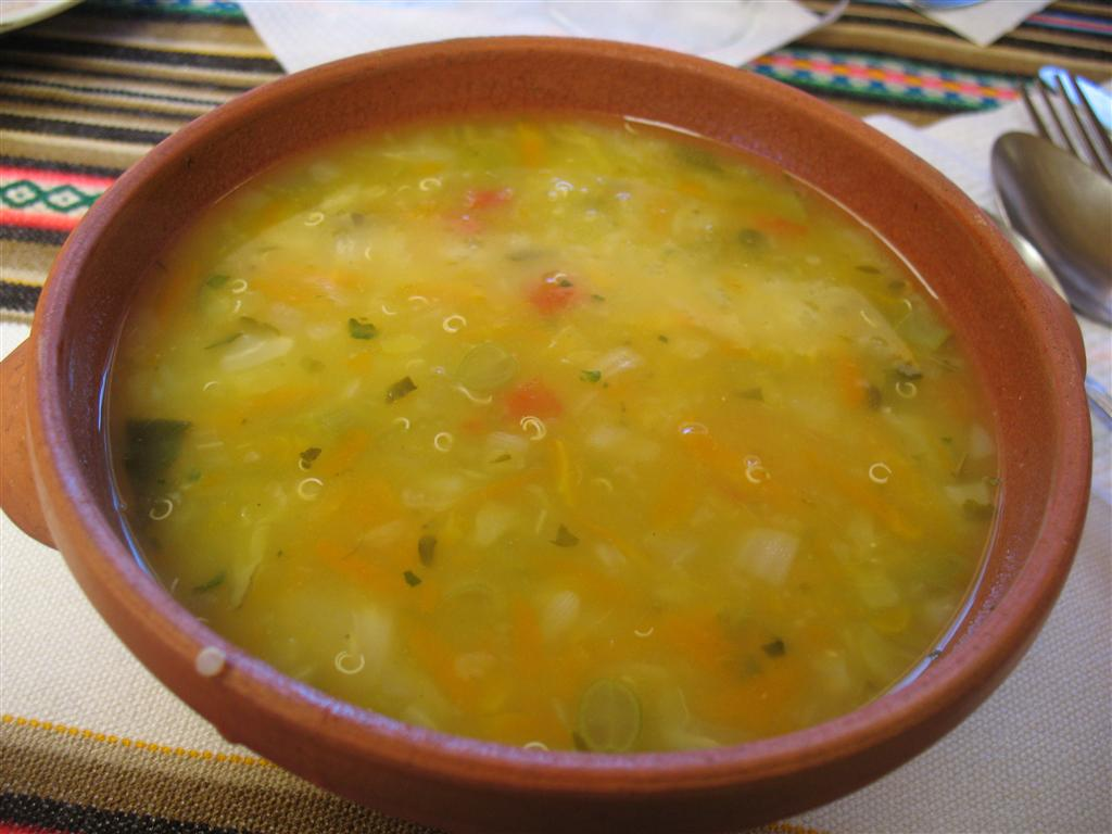 Very common soup in Peru